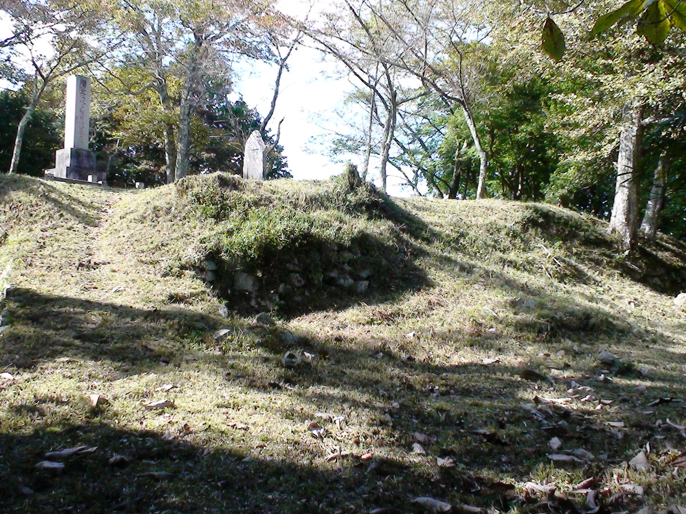 At the ruin of Yagami Castle, on the topn of Mount Takashiro, Sasayama, Hyogo, Japan.